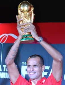 Former Brazilian footballer Rivaldo.